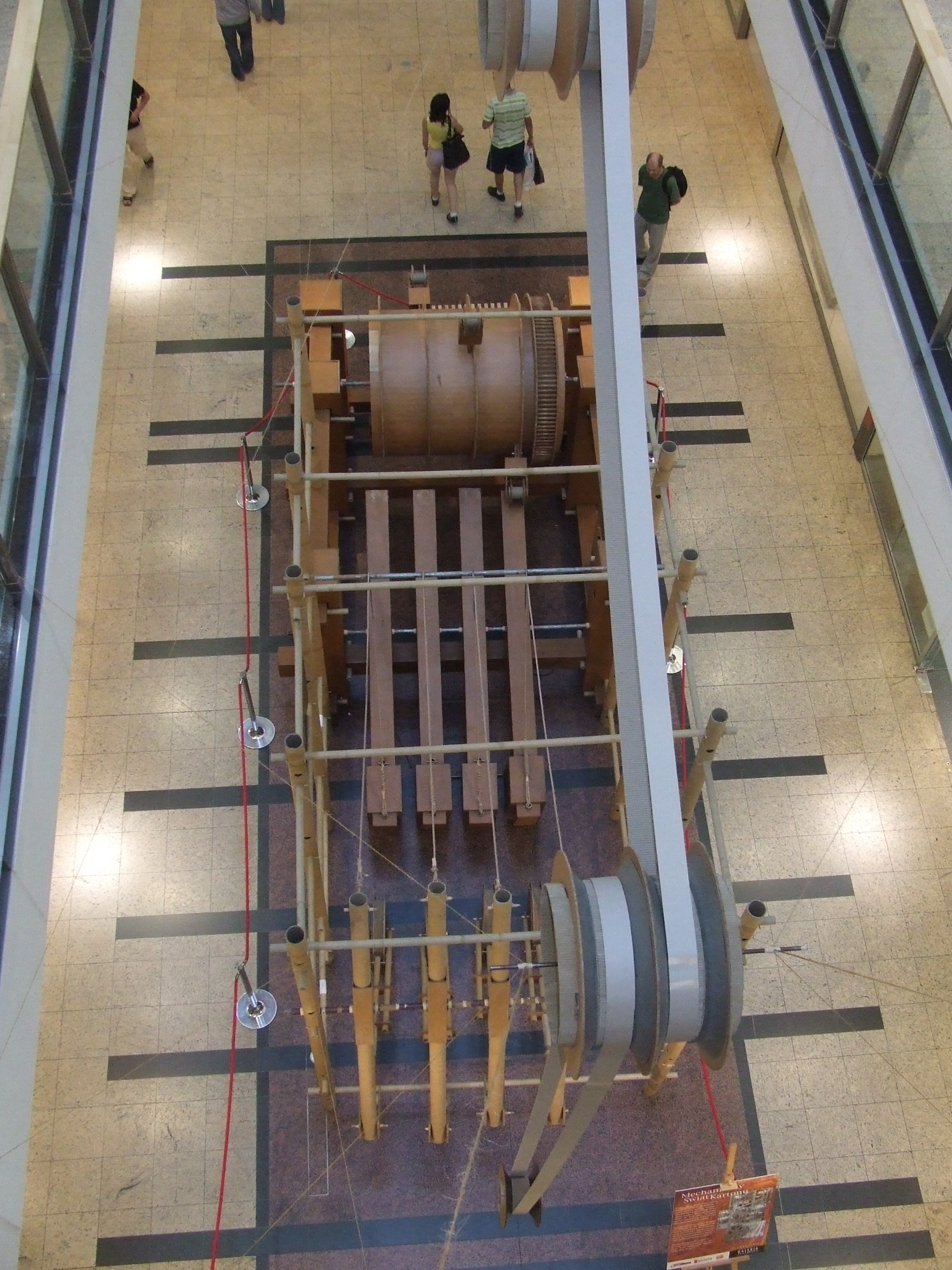 Bernard Lagneau's machine (exhibition in Cracow, Poland 2008)